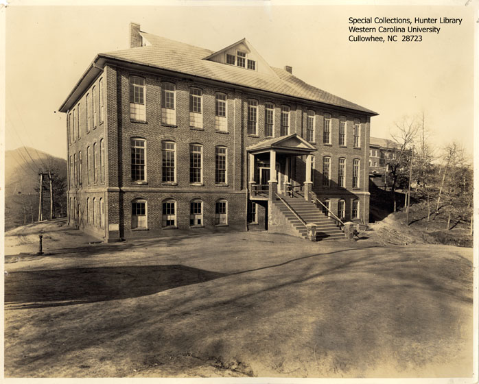 Joyner Building, like â€œOld Madison Building,â€ it served as a combination classroom and administration facility. Constructed in 1913, it was the focus of the Cullowhee Normal and Industrial School campus for decades. Until 1952 it housed the schoolâ€™s library. Unfortunately, the building was destroyed by fire in 1981.